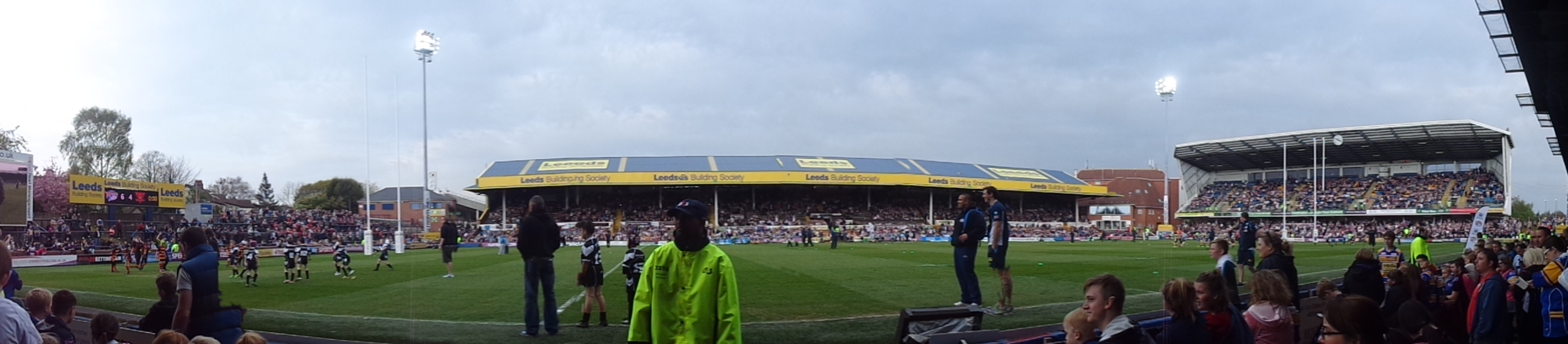 Leeds Rhinos vs. Salford Red Devils, Headingley Stadium, Leeds. Seen from the South Stand. Taken on the evening of Easter Monday the 21st of April 2014.